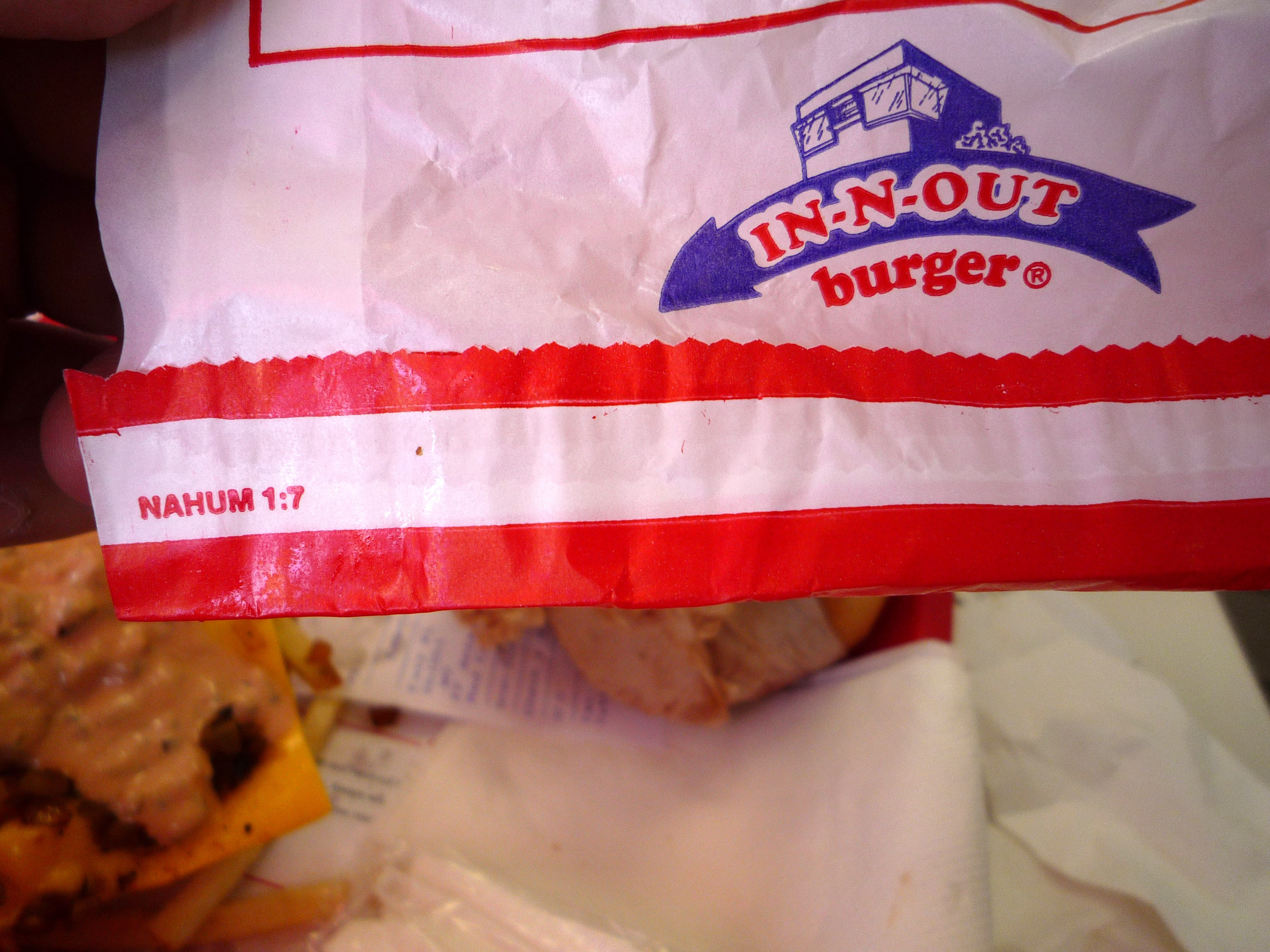 The wrapper of a Double-Double hamburger from In-N-Out Burger featuring a bible verse from the Book of Nahum. Nahum 1:7—"The LORD is good, a strong hold in the day of trouble; and he knoweth them that trust in him."